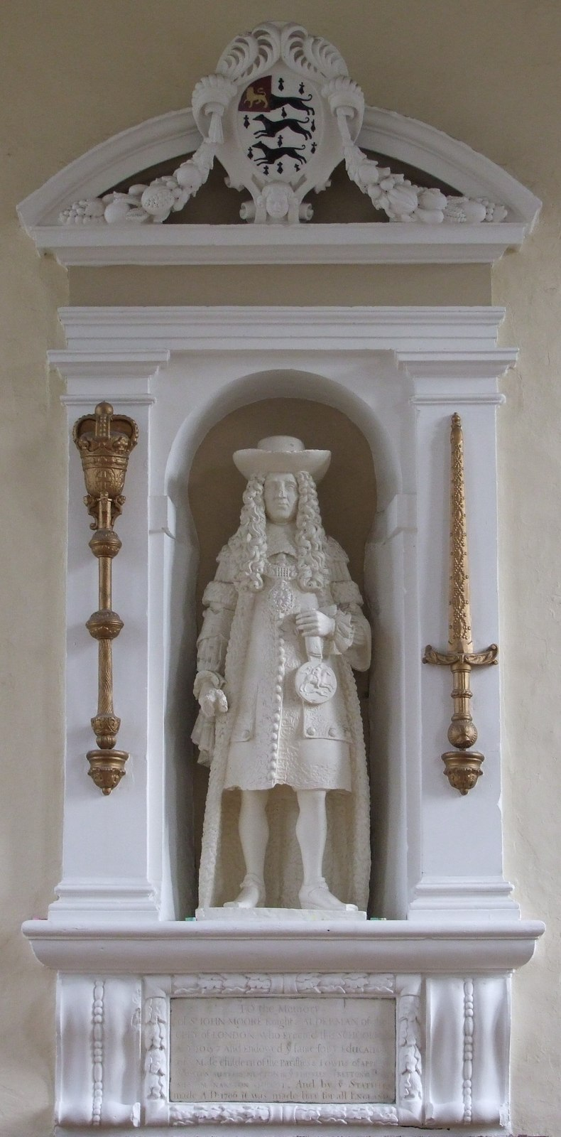 Statue of Sir John Moore, Lord Mayor of London and Member of Parliament, at the Sir John Moore School, Appleby Magna, Leicestershire, which was endowed by Moore.